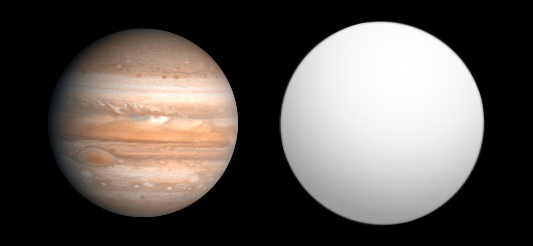 Comparison of best-fit size of the exoplanet OGLE-TR-111 b with the Solar System planet Jupiter, as reported in the Extrasolar Planets Encyclopaedia[1] as of 2010-10-03. ↑ Extrasolar Planets Encyclopaedia (2010-09-30). Retrieved on 2010-10-03.